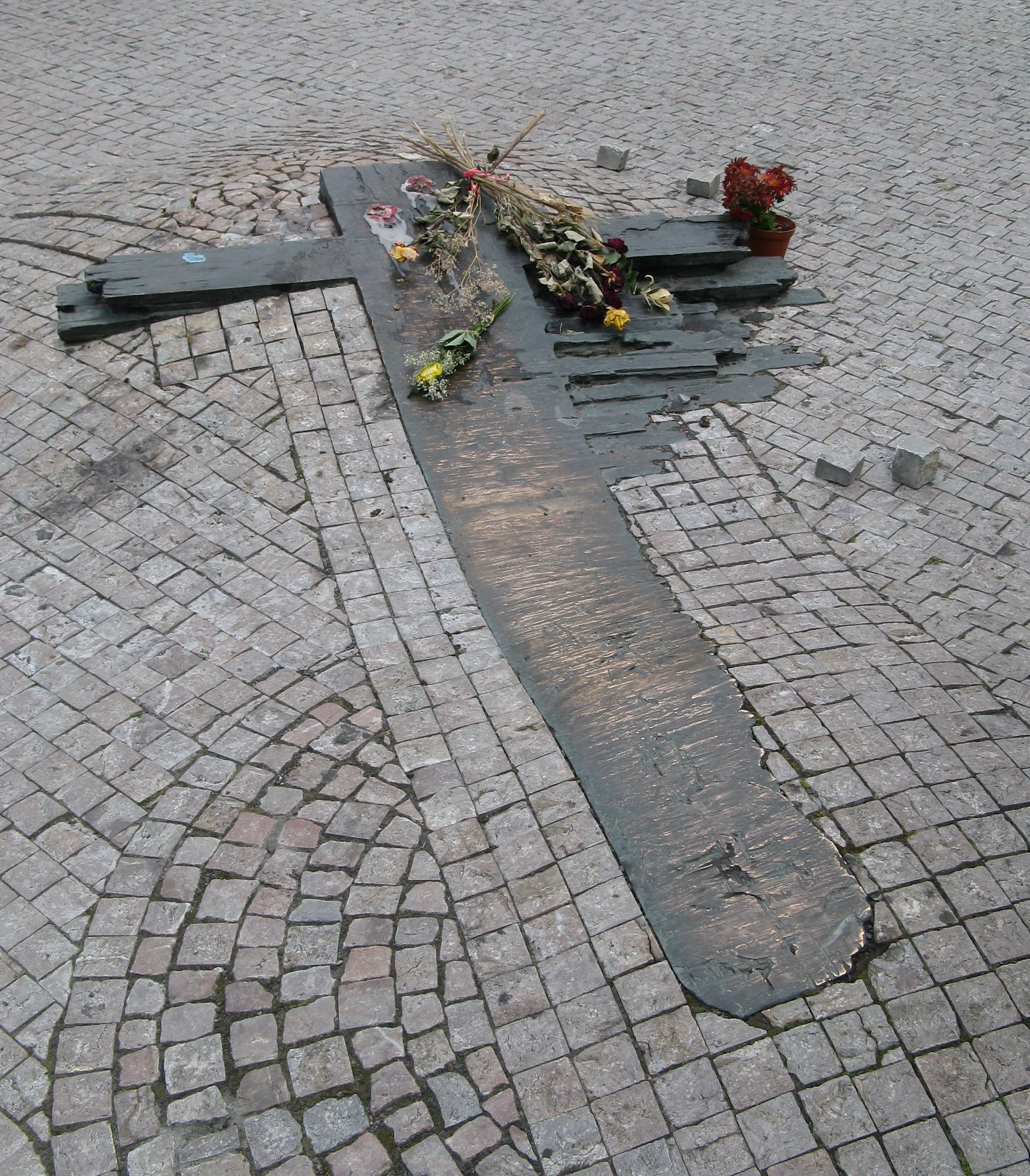 Memorial for Jan Palach and Jan Zajic at at Wenceslas Square, Prague